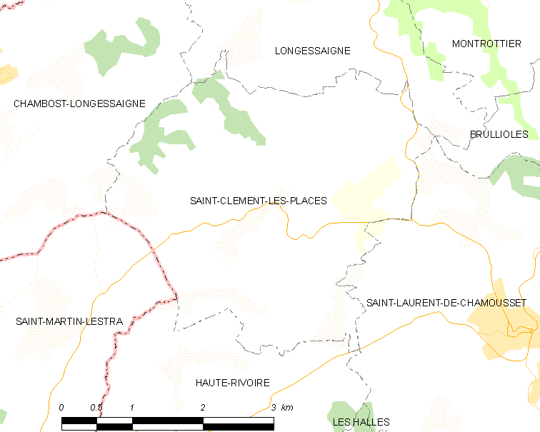 Map of French municipality